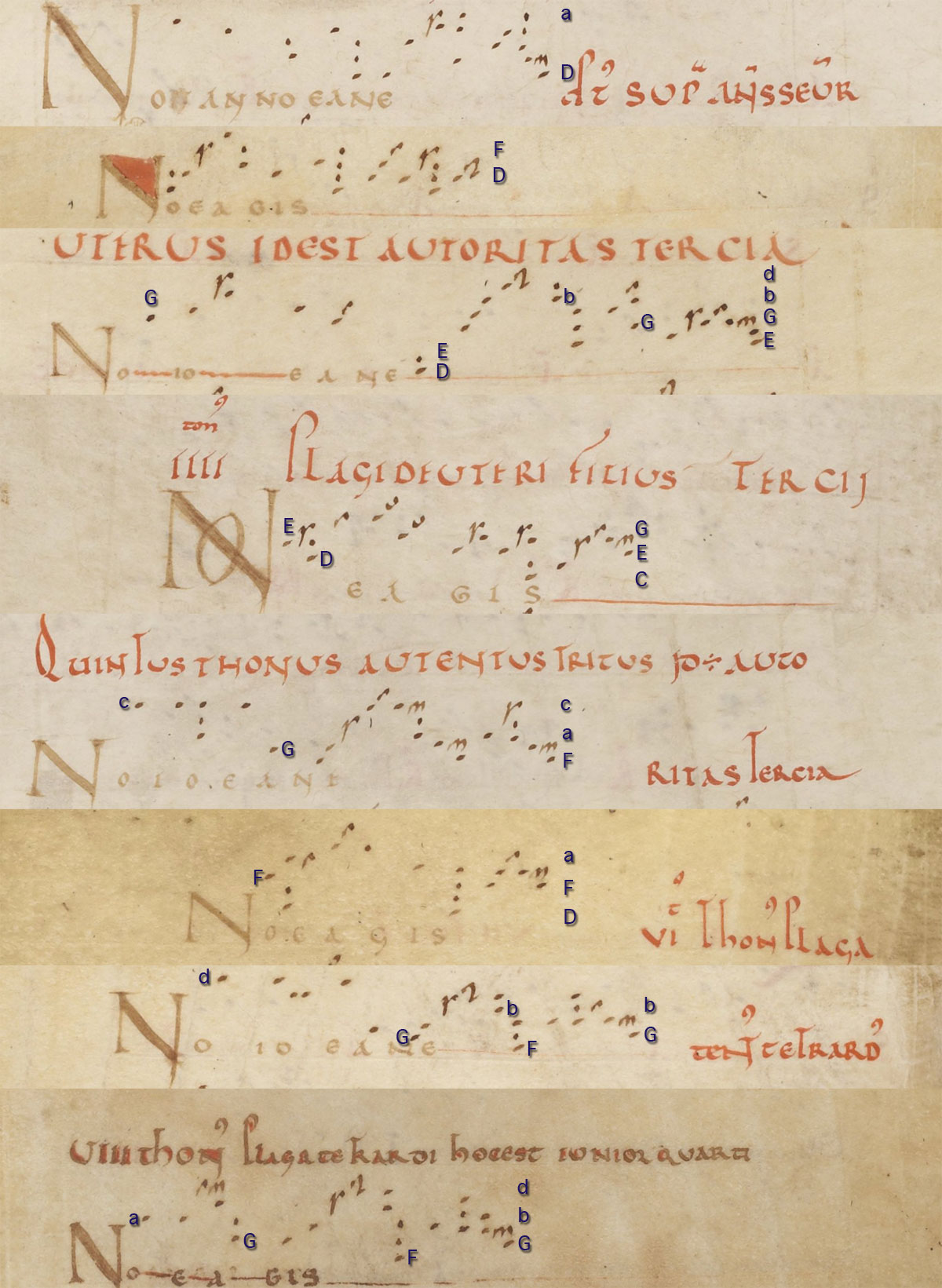 Interpretation of neume notation written in a medieval manuscript (compilation taken from F-Pbn, fonds latin. ms. 909, fol. 251-254)